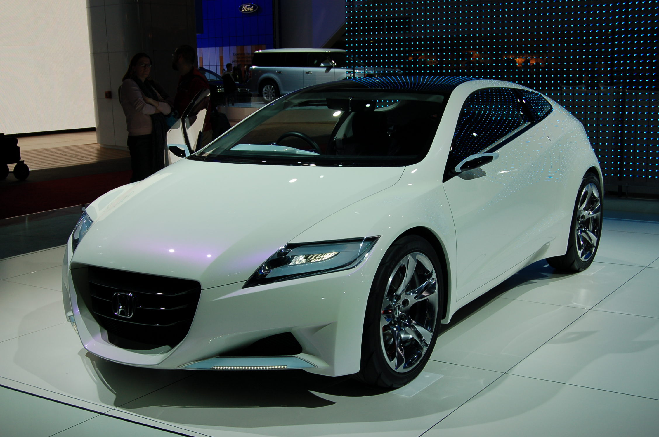 Taken at the 2008 North American International Auto Show in Detroit, Michigan.